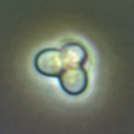 Cyanidioschyzon merolae strain 10D, mitotic phase./ Microscope : Olympus BX51 (PhC)